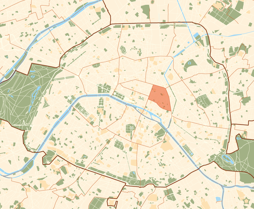 Plan by ThePromenader (own work)